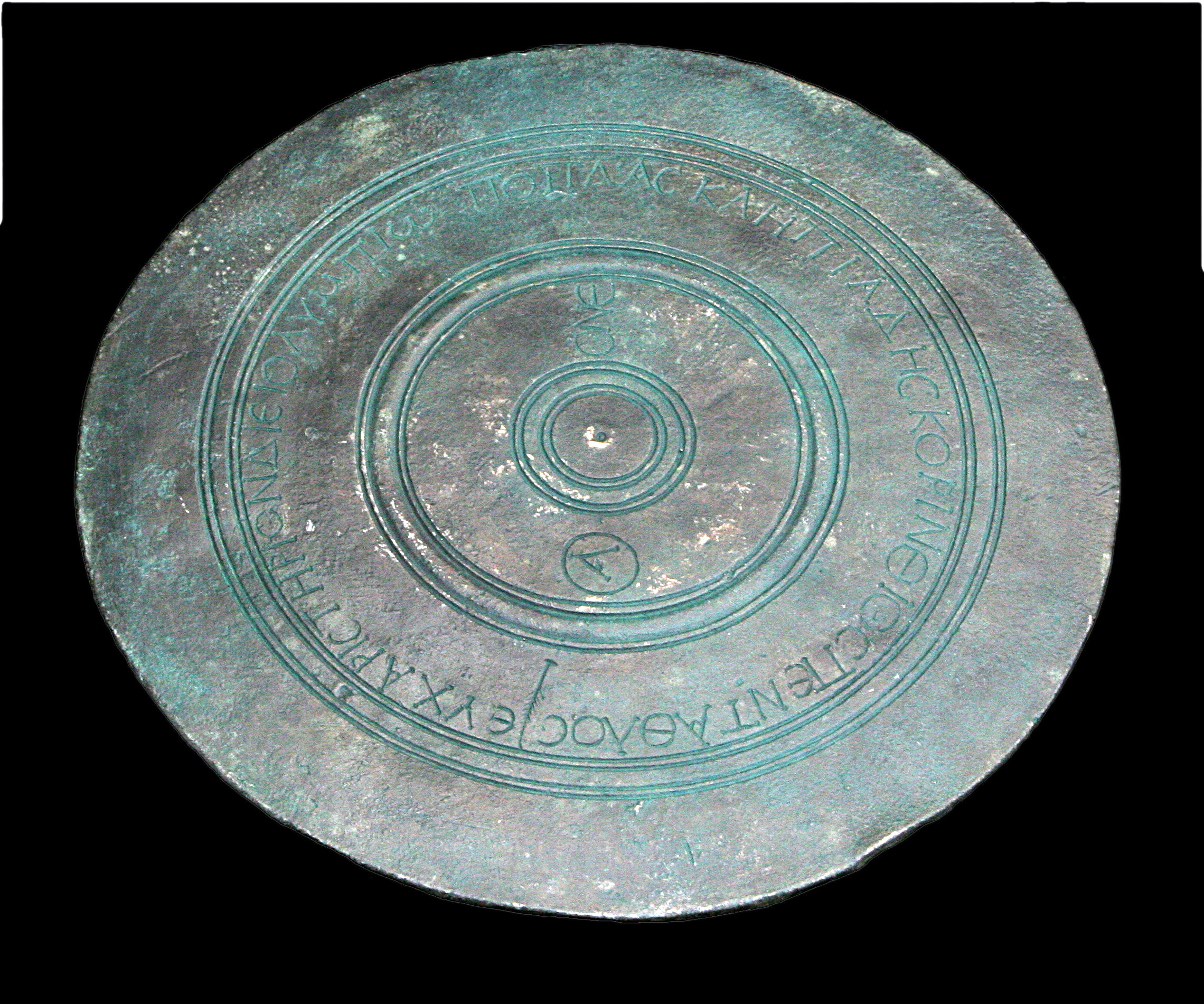 Bronze disk, Wt. 5.707 kg, Diam. 34 cm, H. 5–13 mm. Replica of an ex-voto dedicated to Zeus by Asklepiades of Corinth, winner of the pentathlon in the 255th Olympiad. Glytothek Munich, original in the Archaeological Museum of Olympia (Inv. 7567).